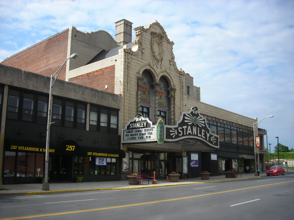 The Stanley Center for the Arts, at Utica, New york, United States.